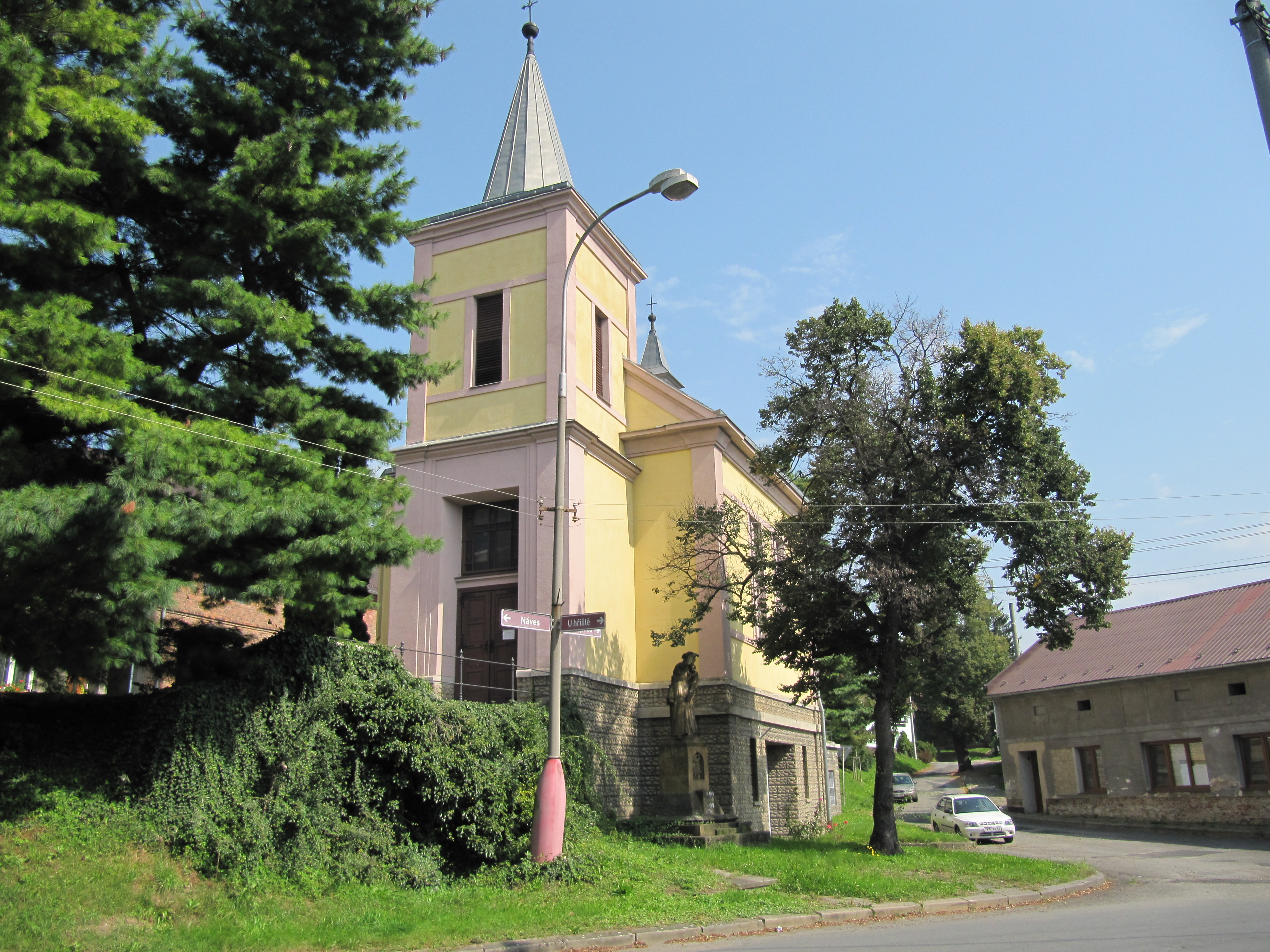 Přerov, Czech Republic, part Dluhonice. Chapel of the Exaltation of the Holy Cross from 1928. This photograph was taken within the scope of the third year of the 'Czech Municipalities Photographs' grant.